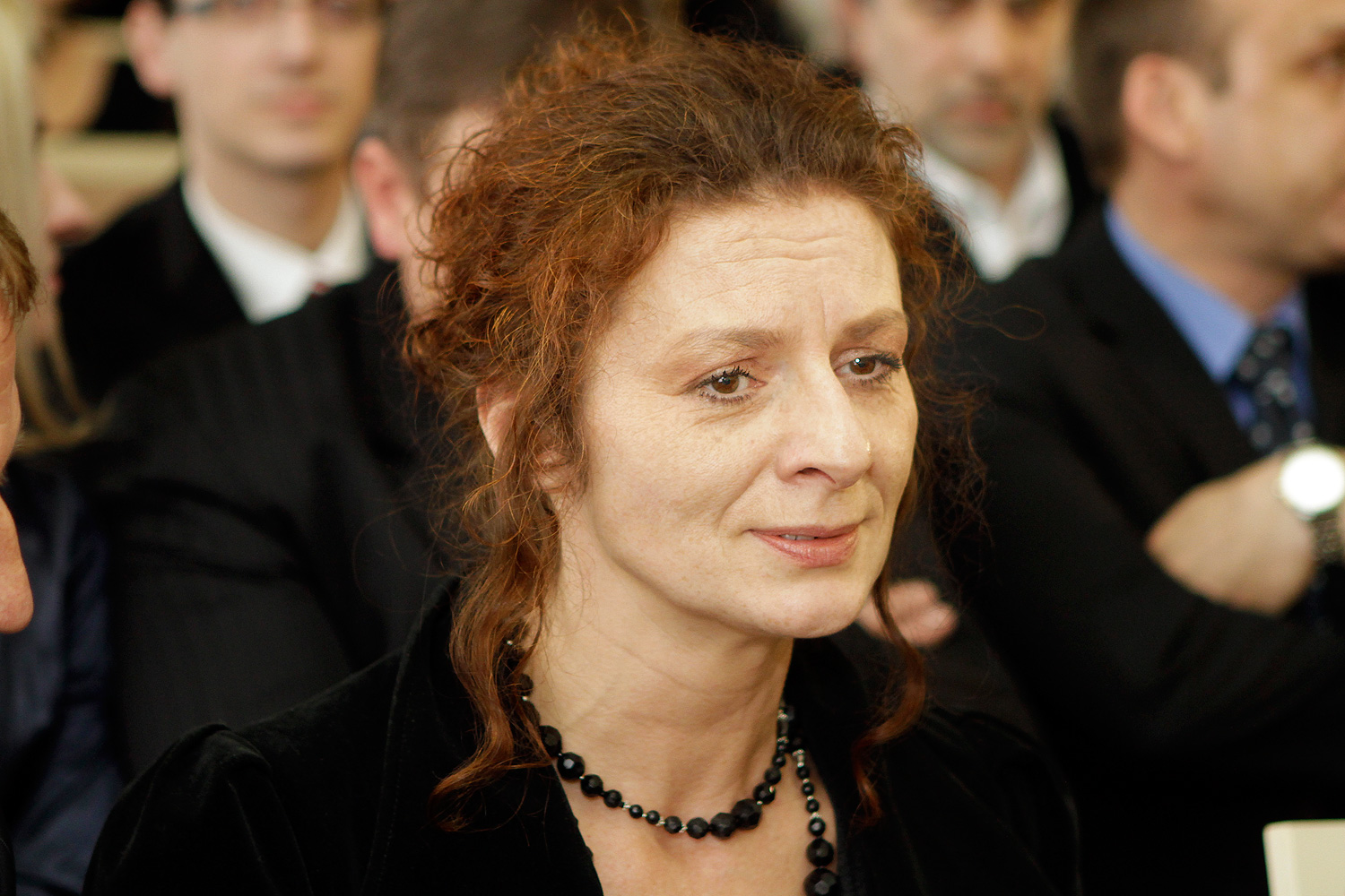 Actress Daiva Stubraitė